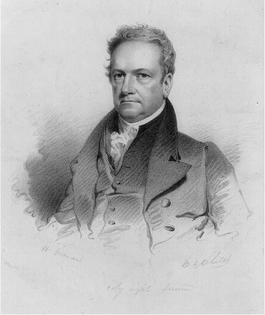 A lithograph of De Witt Clinton's painting by Henry Inman.